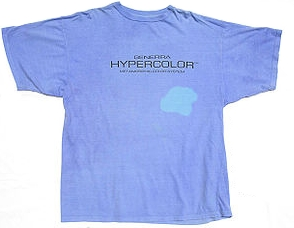 Photo courtesy of Dana Hundley. A hairdryer was used to change the blue to turquoise.